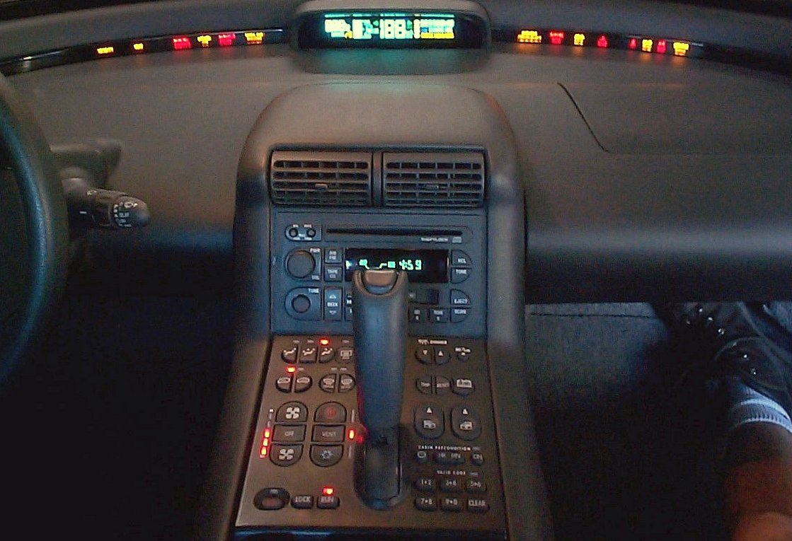 GM EV1 center console and dash digital panel